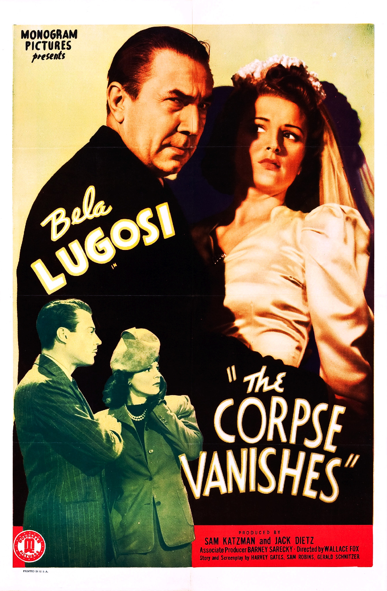 Poster for the 1943 film The Corpse Vanishes. The item has no copyright marks on it as can be seen at links and original upload. At bottom left is Printed in USA.